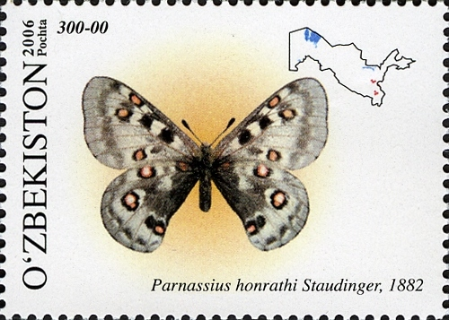 Stamps of Uzbekistan, 2006